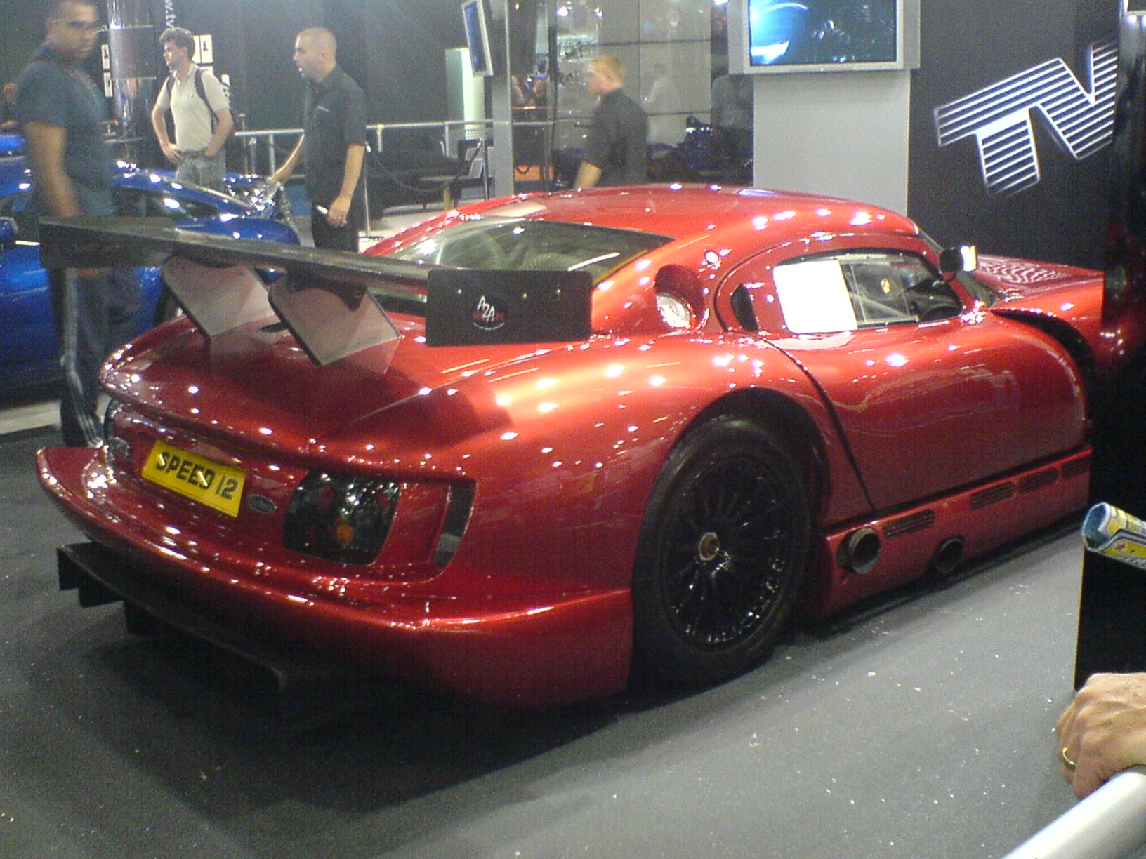 At the 2006 British International Motor Show.